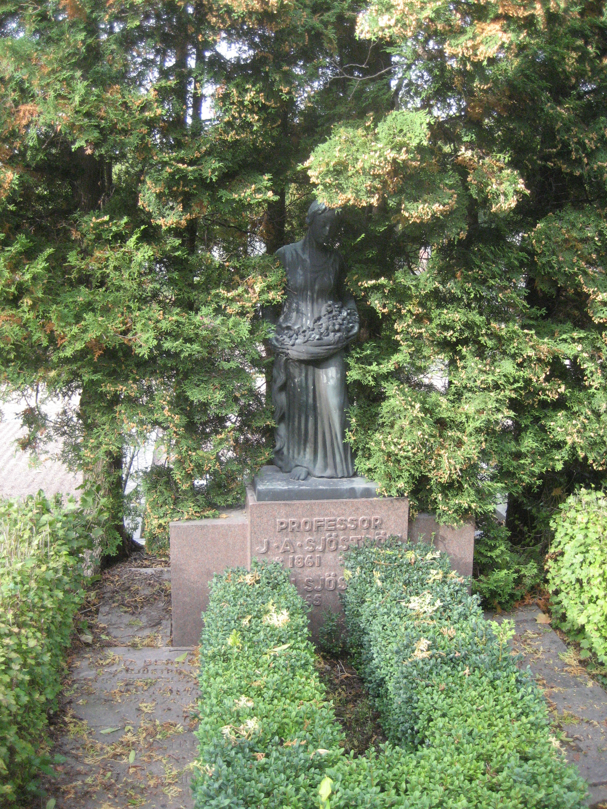 Jan Abraham Sjöström (1861-1933), Uppsala Cemetery (Sweden)